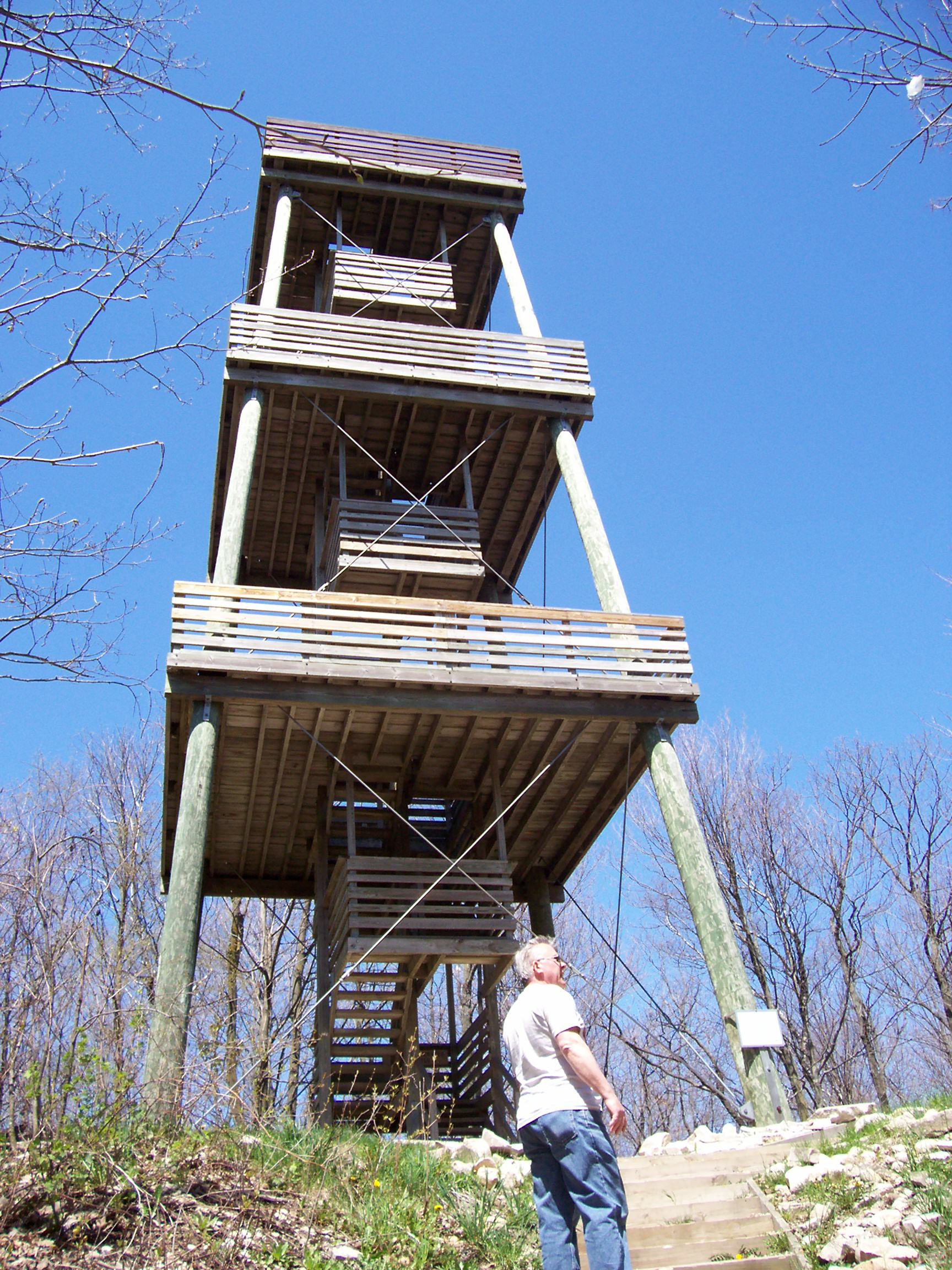 The Parnell Tower at the northern unit of the Kettle Moraine State Forest near Dundee, Wisconsin.